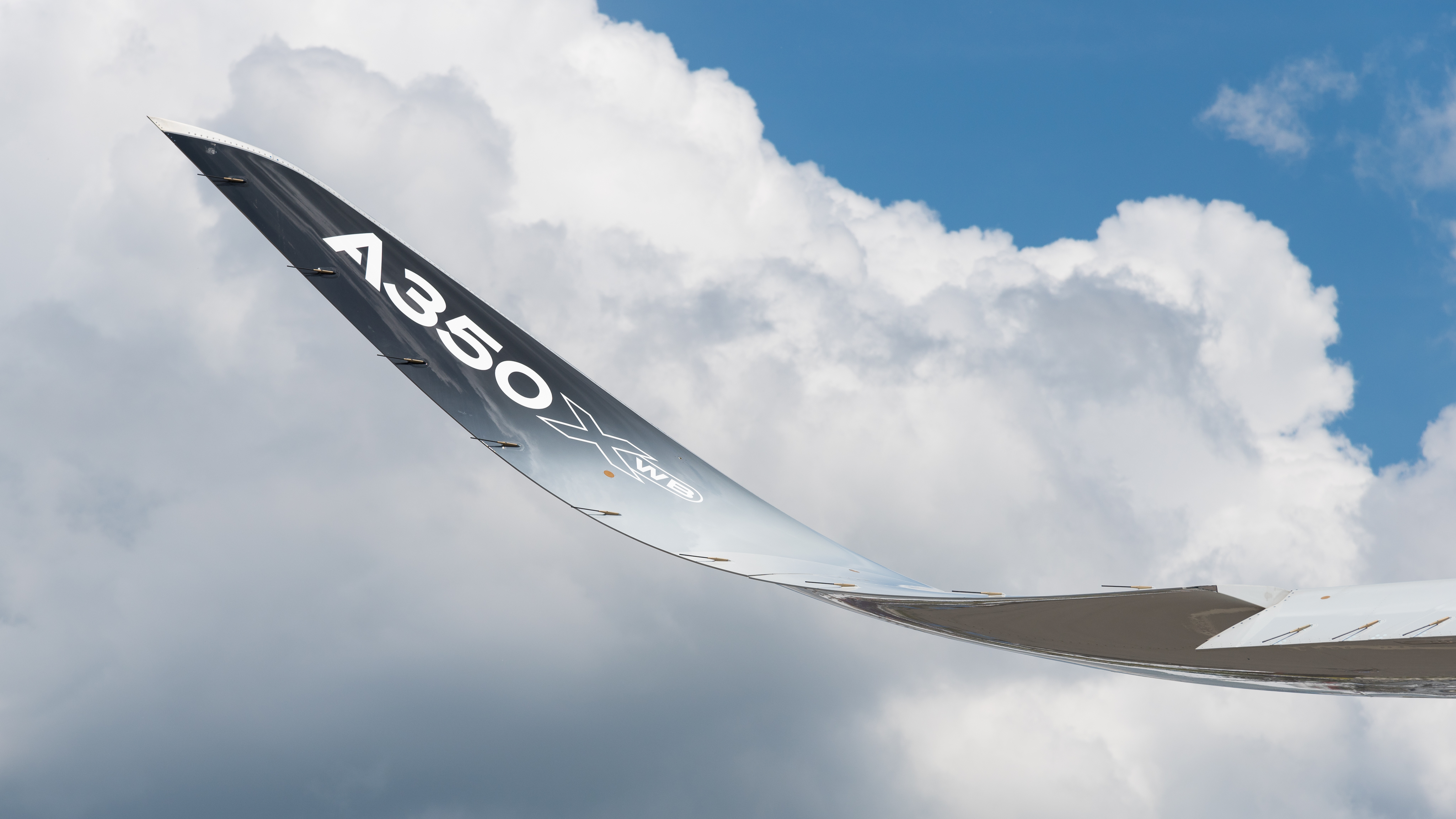 Airbus A350-941 (reg. F-WWCF, MSN 002) in Airbus promotional CFRP livery blended winglet/wingtip device at ILA Berlin Air Show 2016.